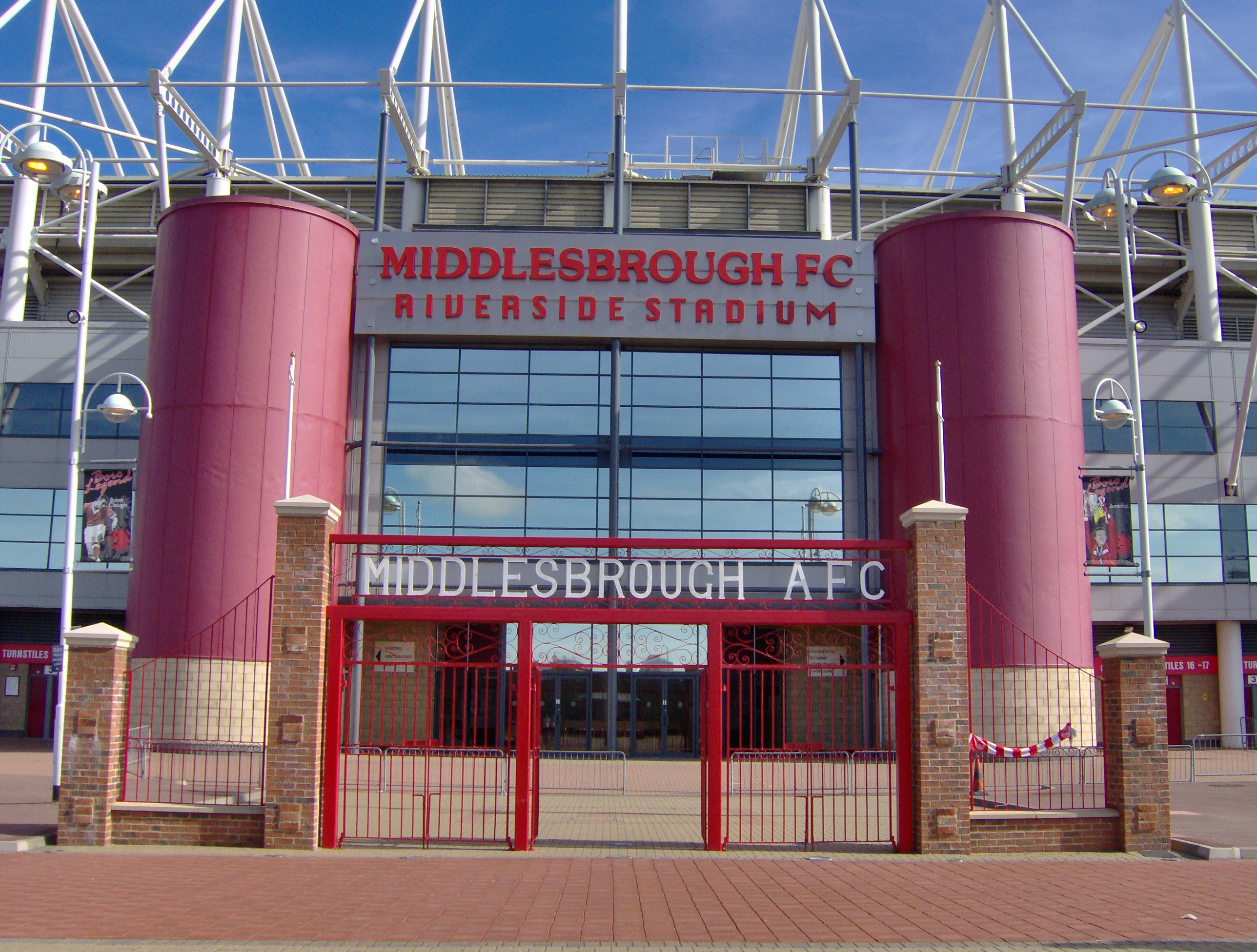 Photograph of the front of the Riverside Stadium in Middlesbrough, showing the old Ayresome Park gates.